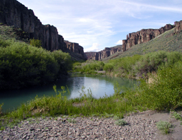 Battle Creek — in Owyhee County, southwestern Idaho. A federally designated National Wild and Scenic River.